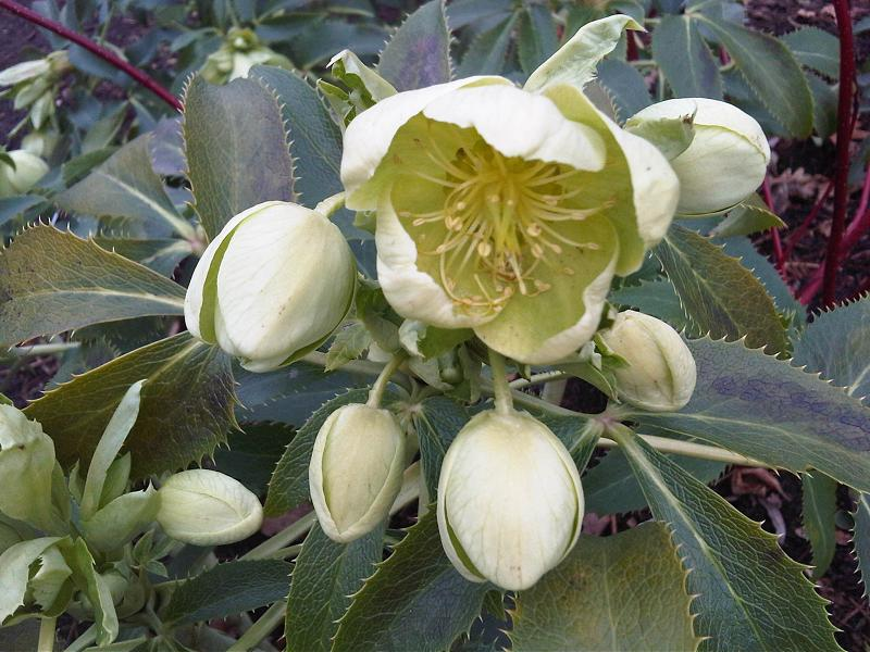 Corsican hellebore (Helleborus lividus - syn: Helleborus argutifolius) flowers in Kew Gardens, England.